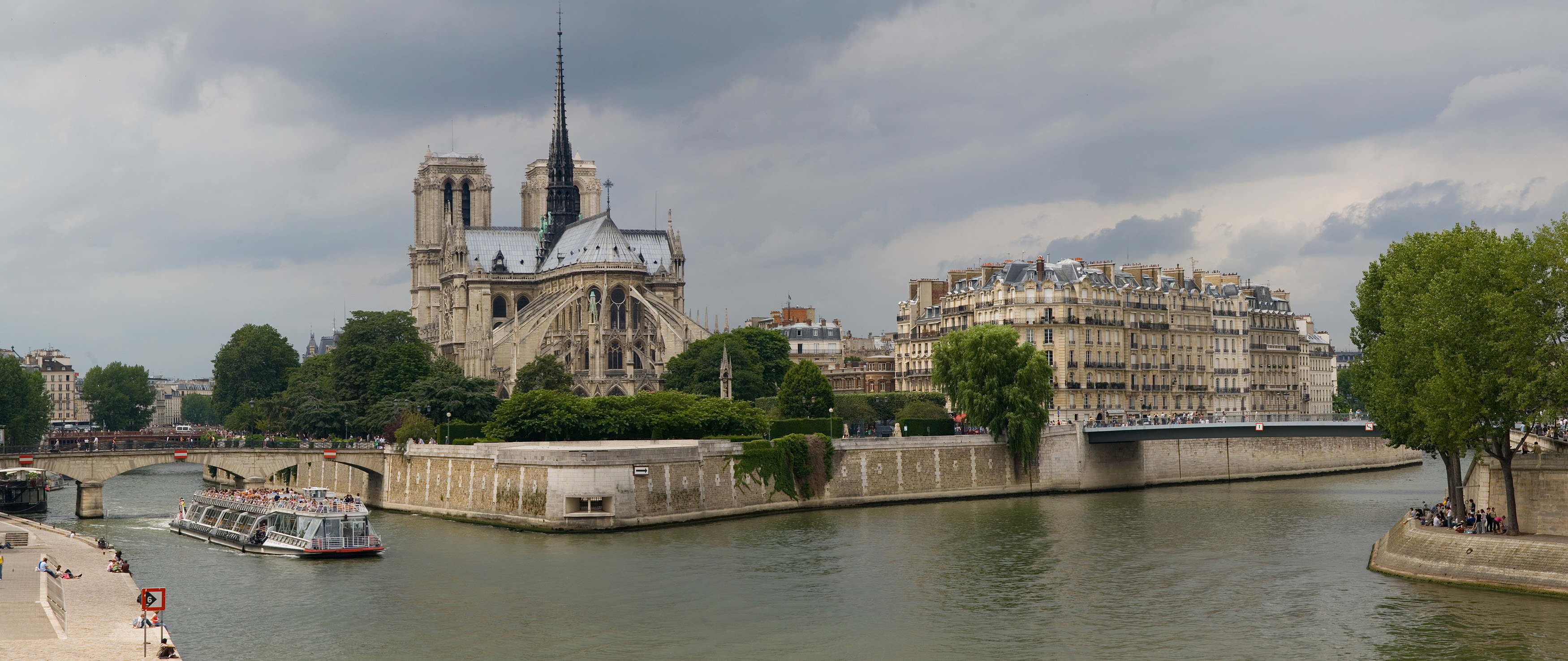 A four segment panorama of Notre Dame de Paris on Île de la Cité. Taken with a Canon 5D and 24-105mm f/4L IS.